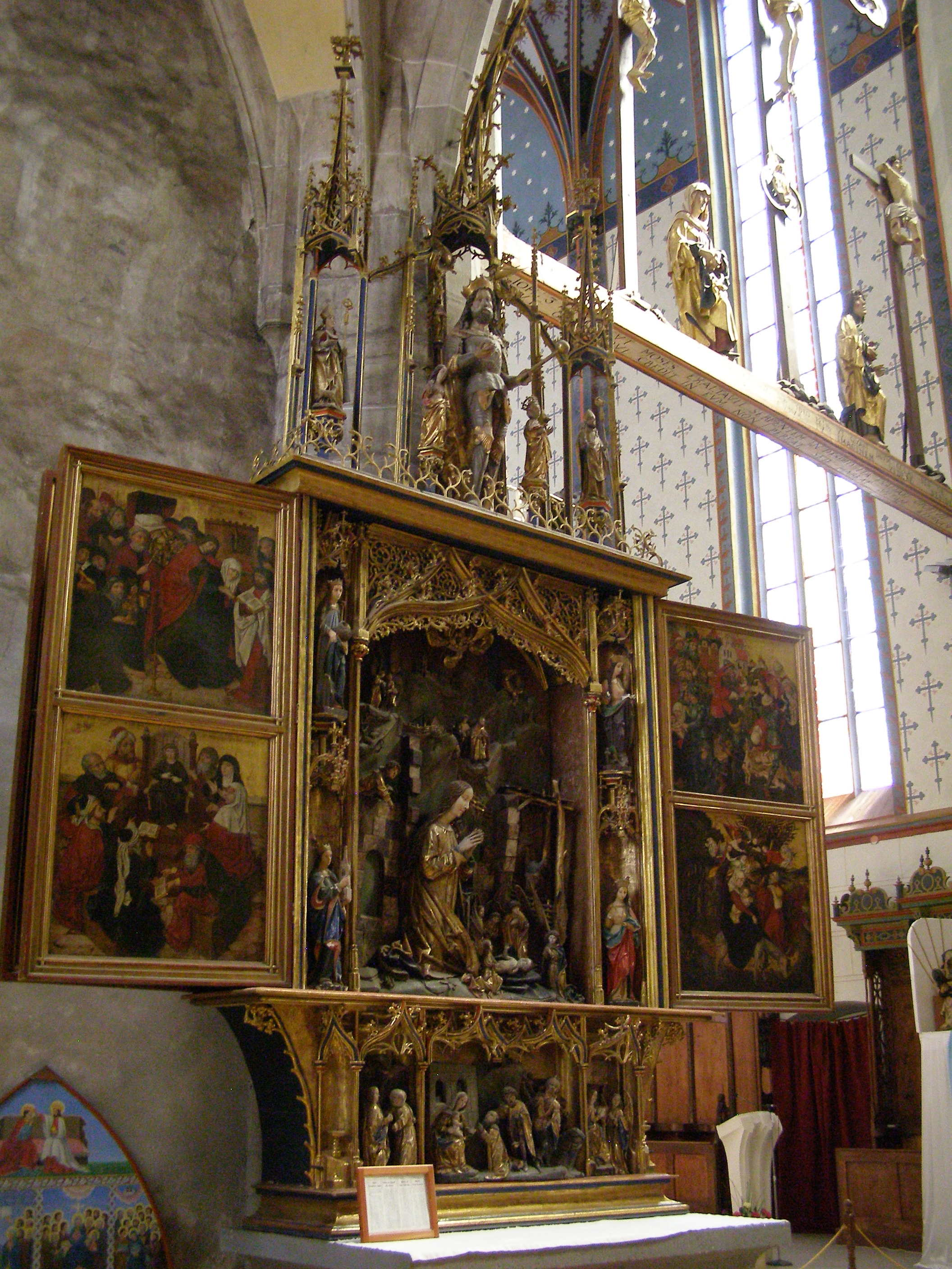 Bardejov - St. Giles' basilica - altar of the Nativity